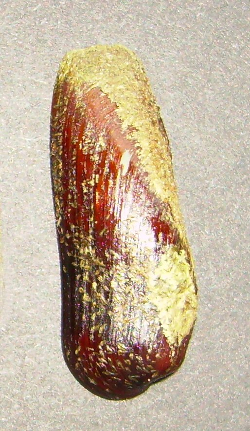 Zelithophaga truncata from Browns Bay, Auckland, New Zealand. This work has been released into the public domain by its author, Graham Bould. This applies worldwide.In some countries this may not be legally possible; if so:Graham Bould grants anyone the right to use this work for any purpose, without any conditions, unless such conditions are required by law.